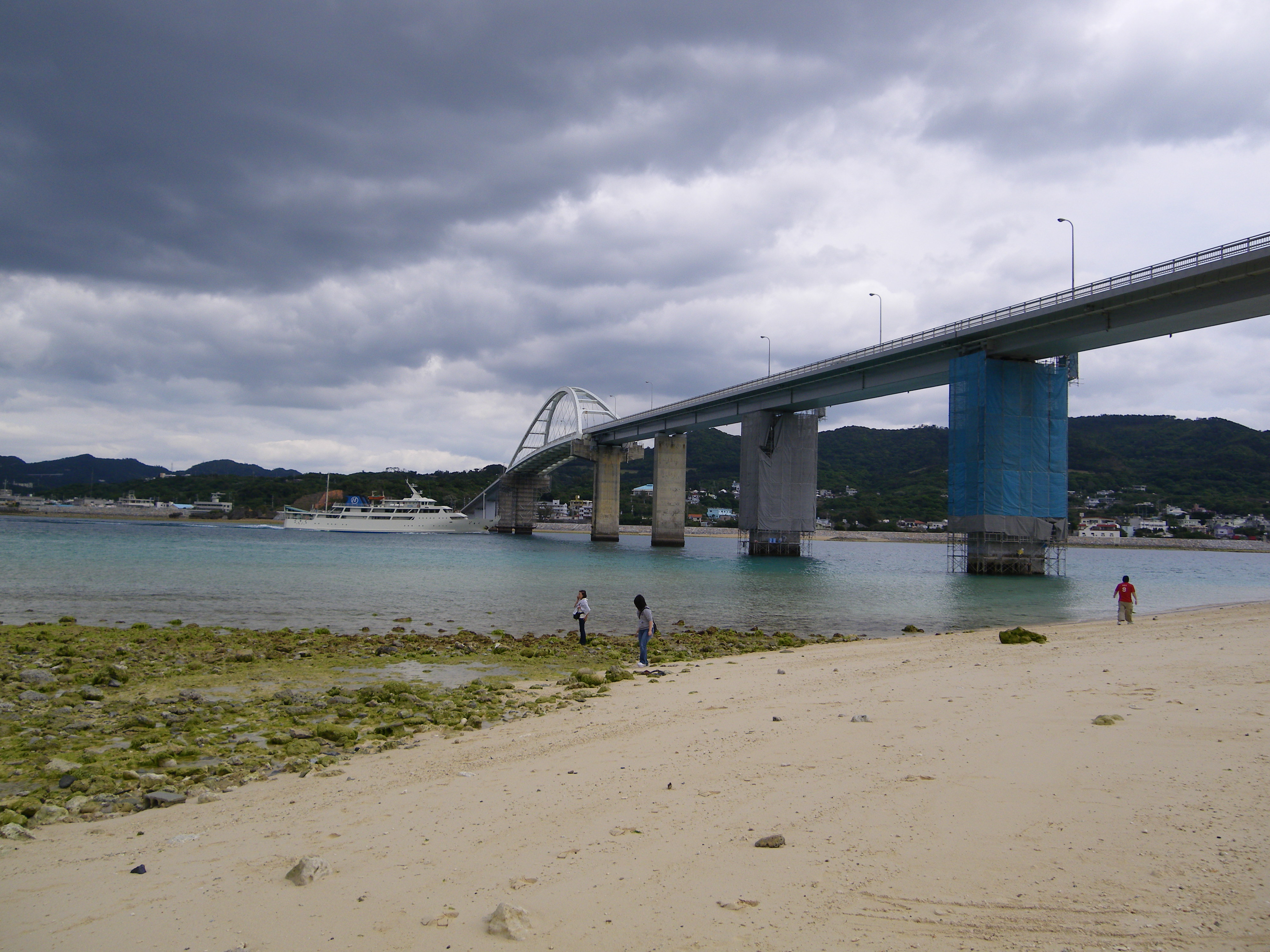 The Sesoko Bridge